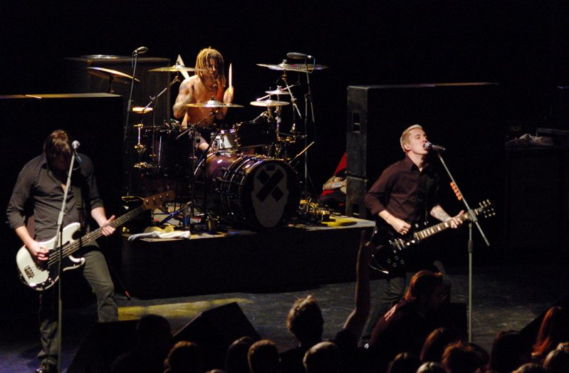 The band Yellowcard performing live